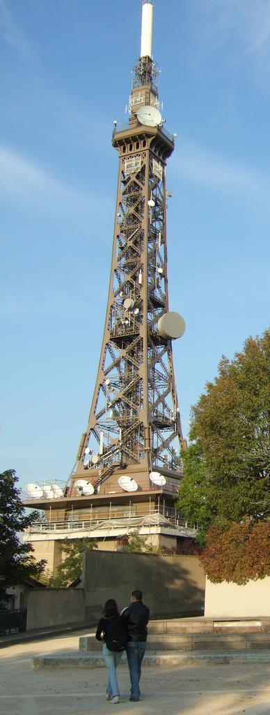 Viewed from southwest.